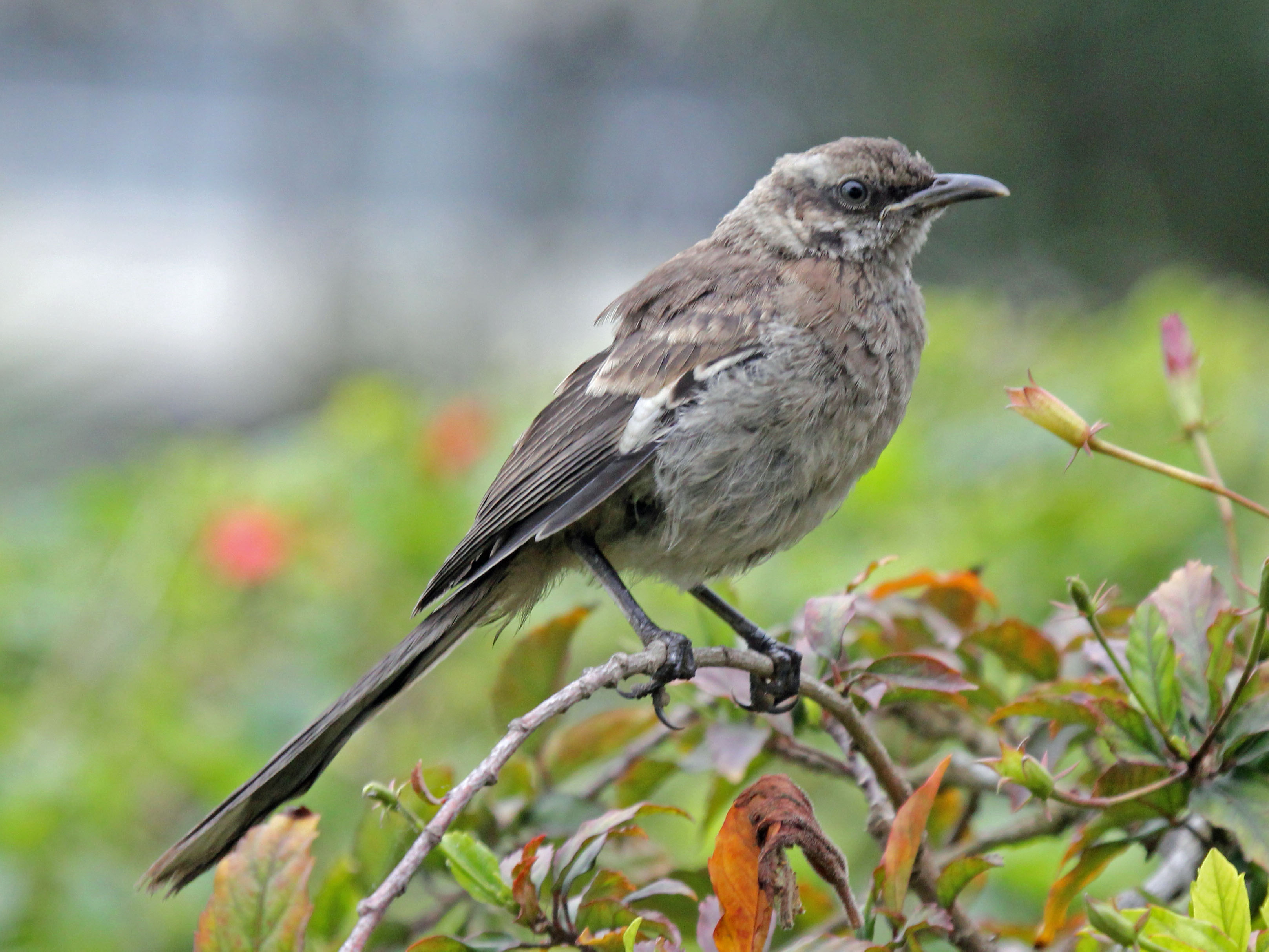 Long-tailed Mockingbird (Mimus longicaudatus) - Lima, Peru